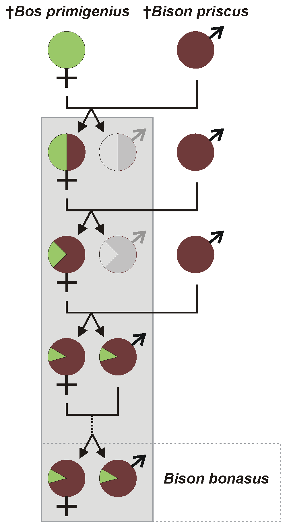 Wisent Bison bonasus is probably the descendant of hybrids originated from the asymmetrical hybridization between male steppe bison †Bison priscus and female aurochs †Bos primigenius.